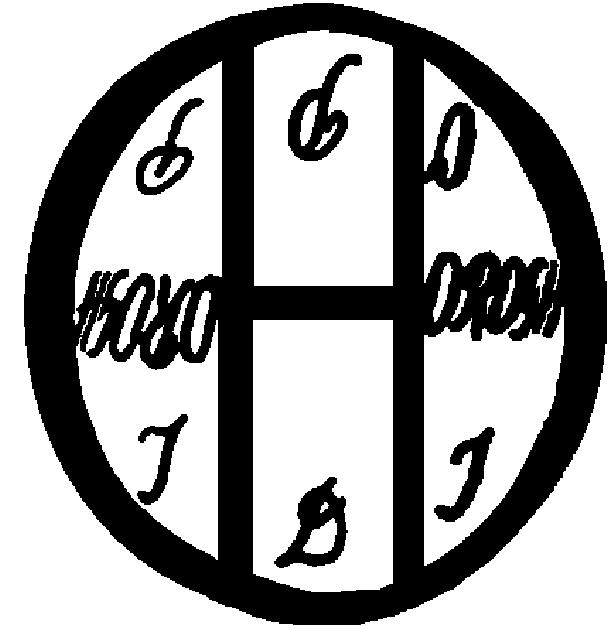 The sign of the branding iron of Hajdúdorog, Hungary in 1748. The sign says: Dorogh Oppidi; that is Market Town of Dorogh.